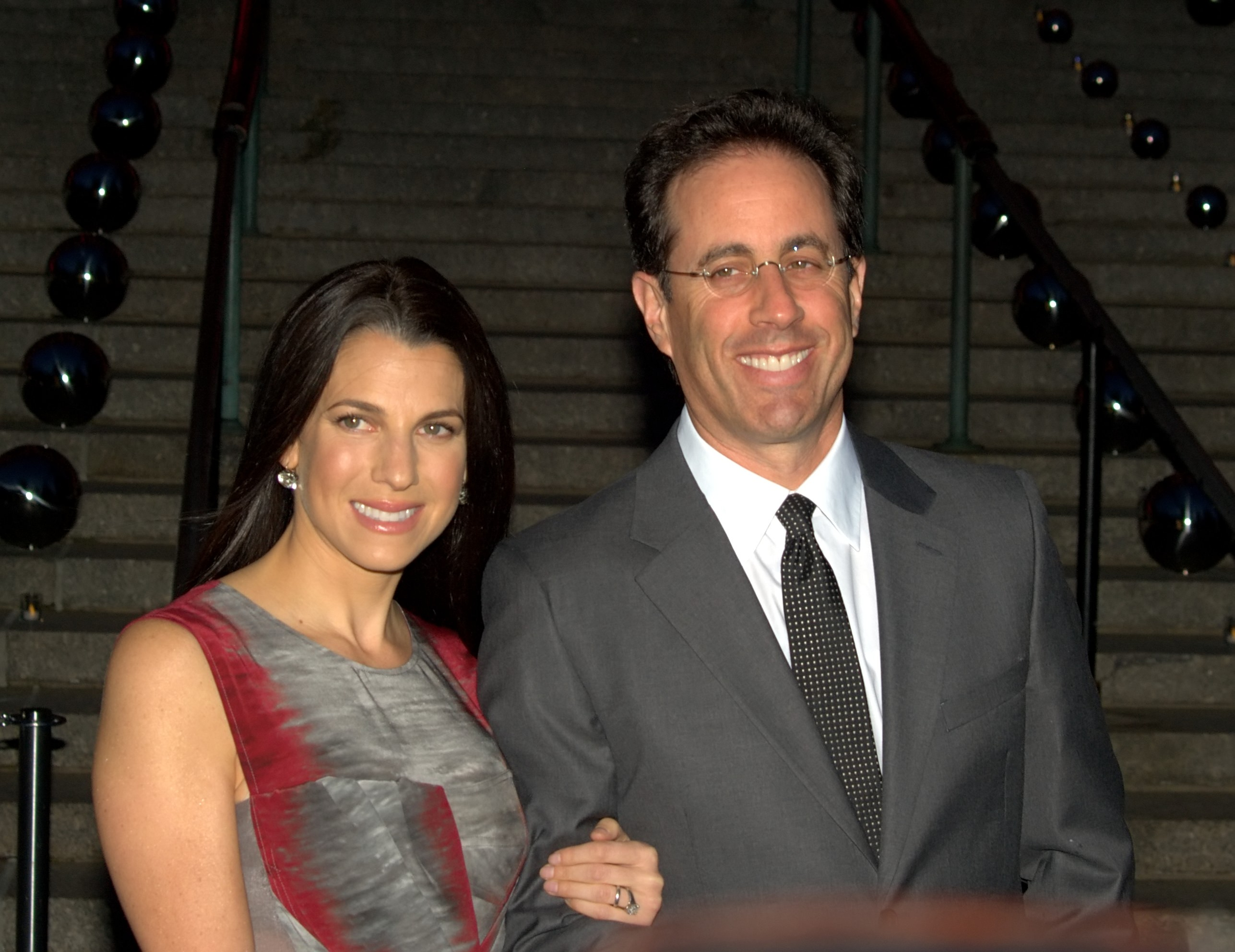 Jessica Seinfeld and Jerry Seinfeld at the 2010 Tribeca Film Festival.